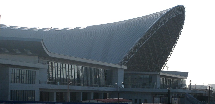 rear of Yantai Railway Station